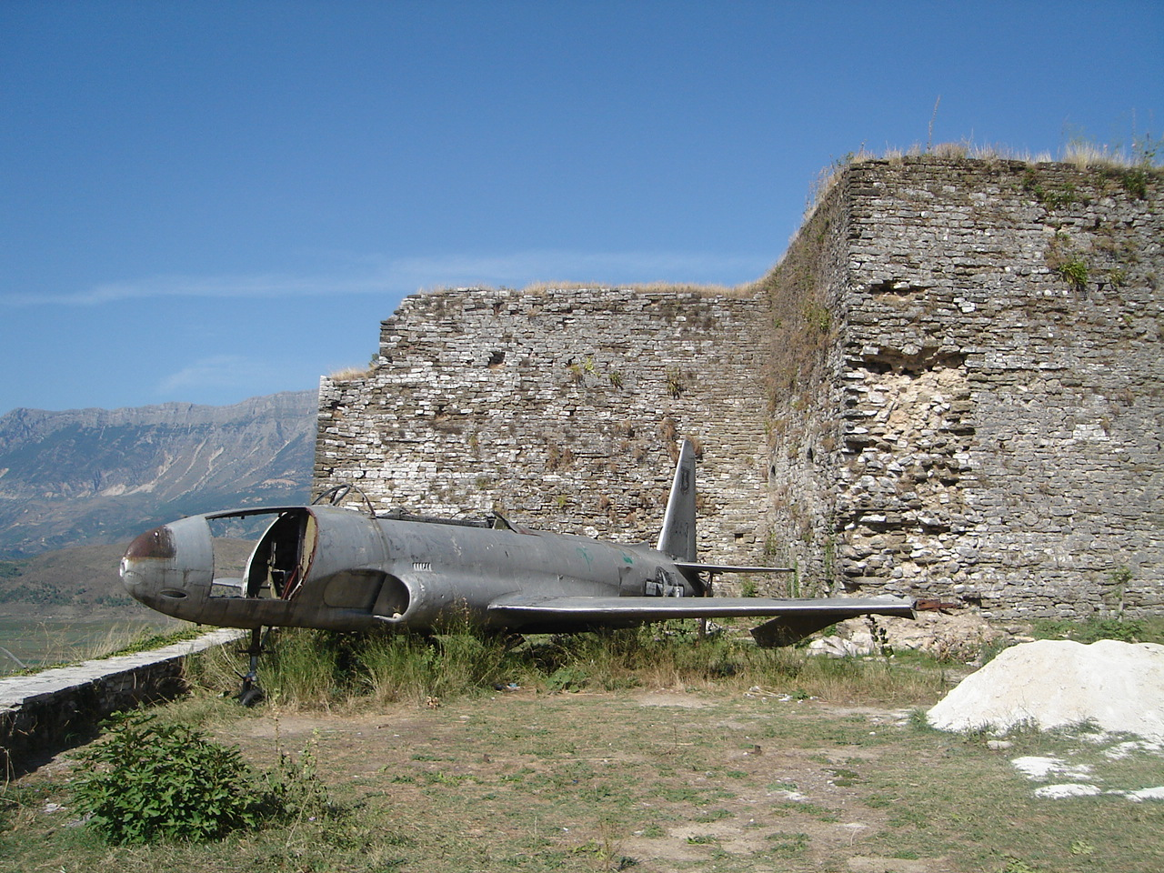 Picture of a derelict U.S. Air Force Lockheed T-33A Shooting Star (s/n 51-4413) at the "National Weapons Museum" in Gjirokastra, Albania, in August 2007. The aircraft had been forced down on 23 December 1957.